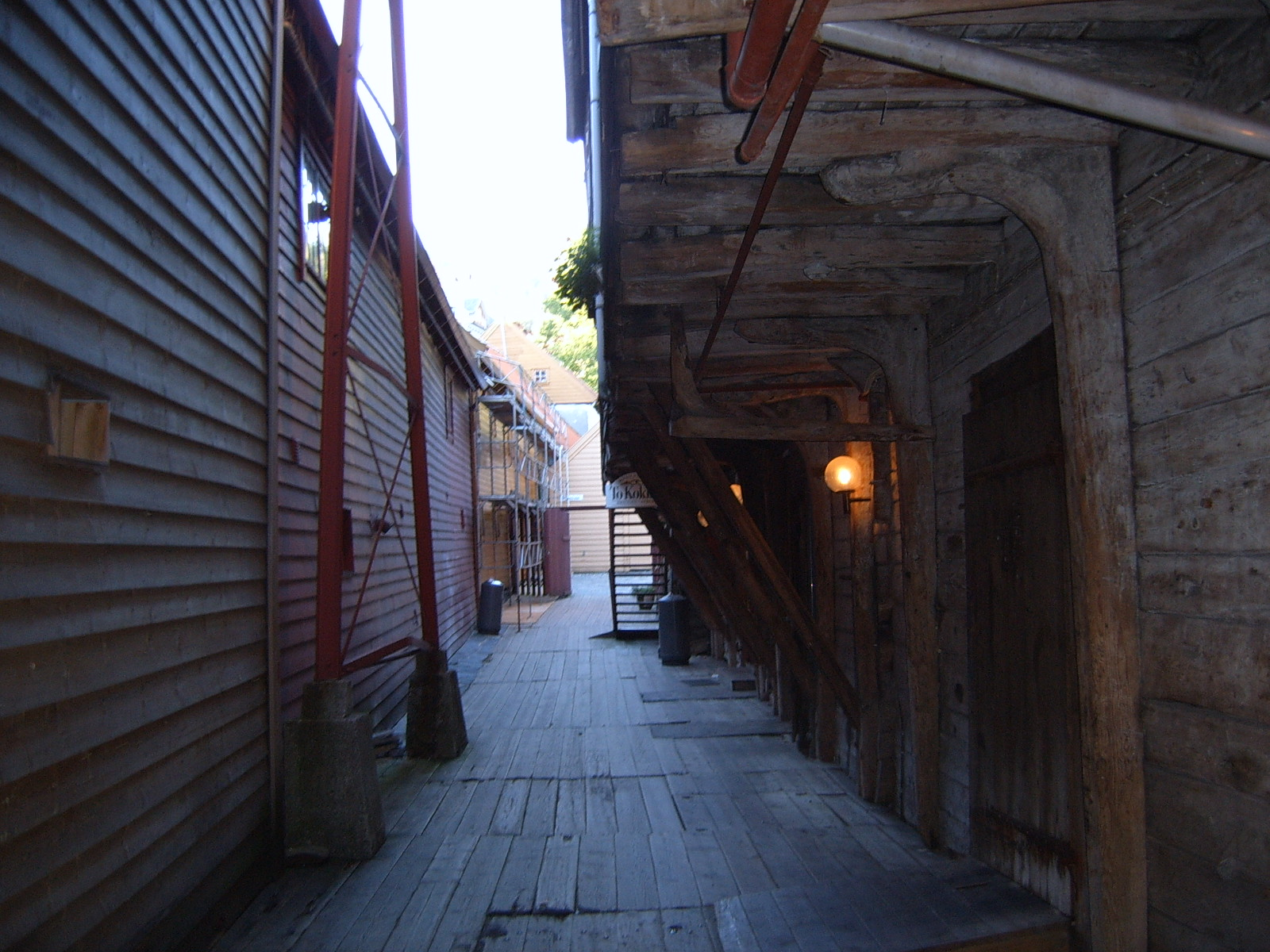 Bryggen, the hanseatic city of Bergen, Norway, july 2005